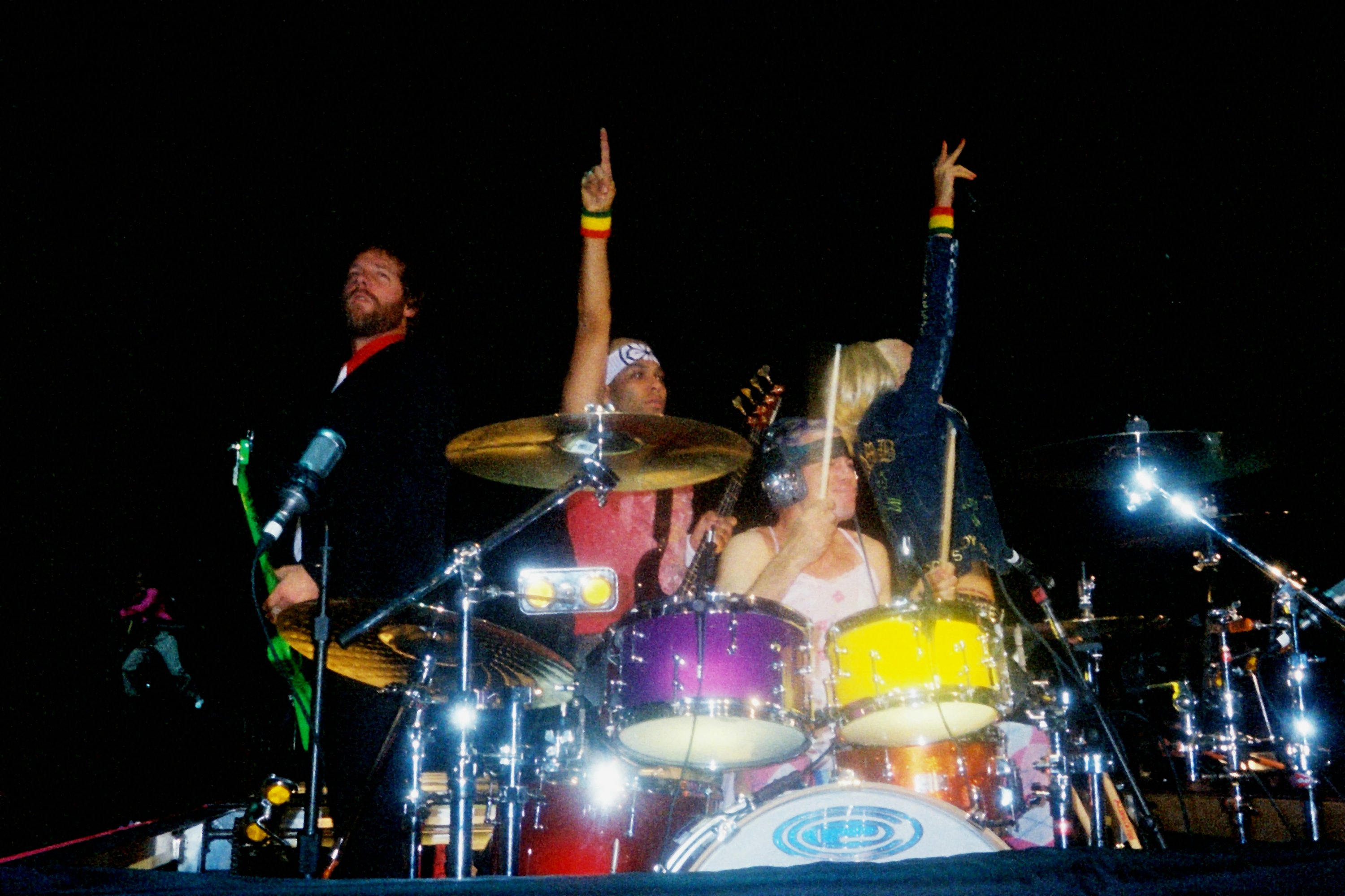 No Doubt performing in Worcester, Massachusetts, United StatesND Worcester